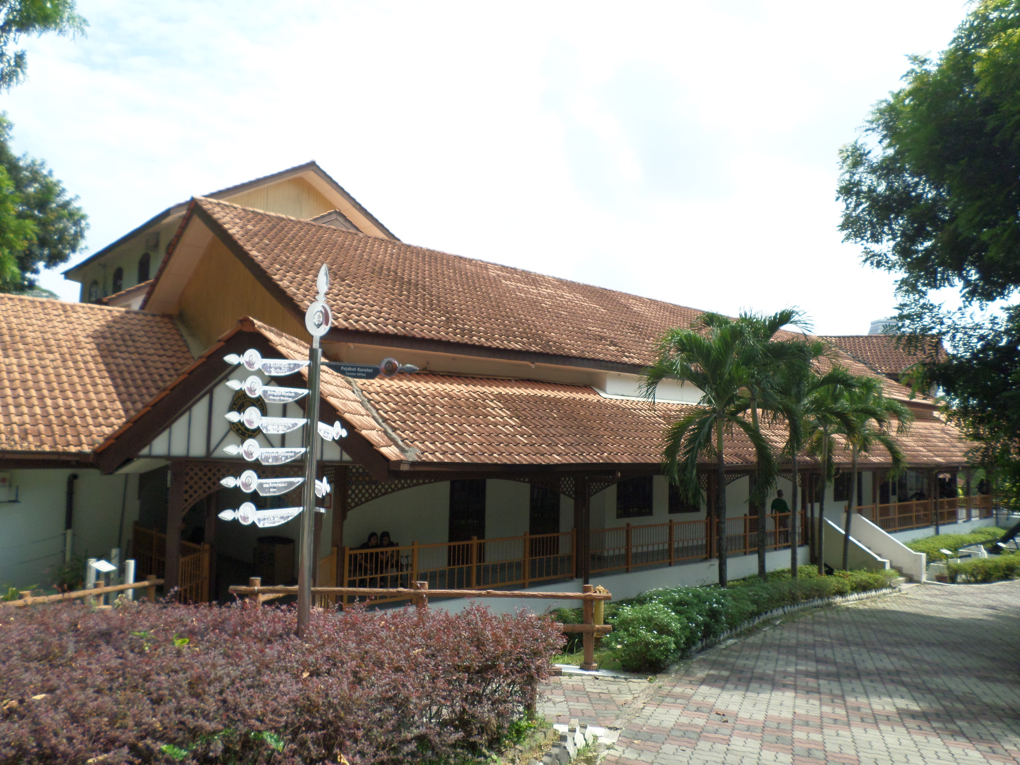 Royal Malaysian Police Museum, Perdana Botanical Gardens, Kuala Lumpur, Malaysia